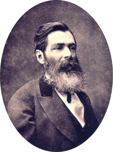 José de Alencar